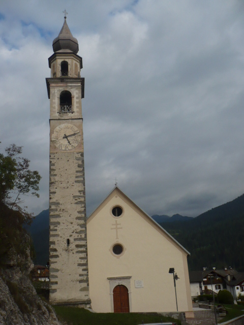 The church of Imèr, dedicated to the saints Peter and Paul, the town's patrons.